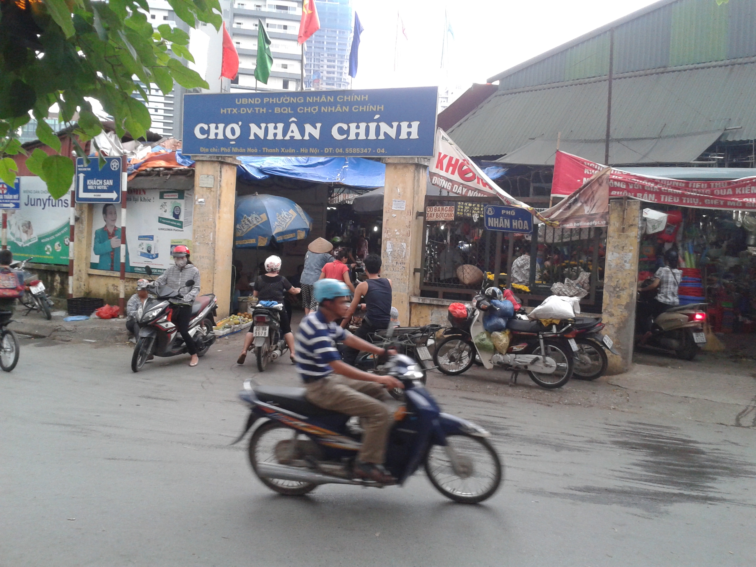 Entrance to Nhân Chính market, Hanoi